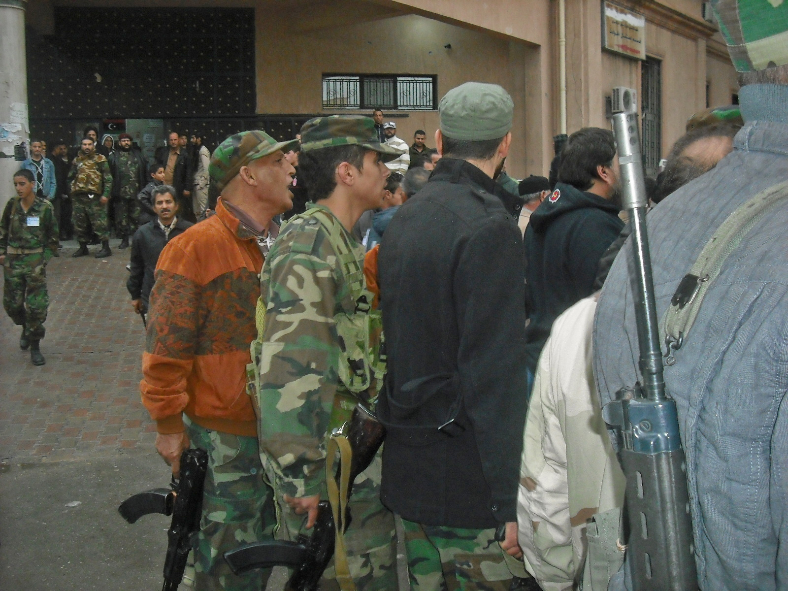 Armed militias in the streets of Tripoli following skirmishes, January 4, 2012